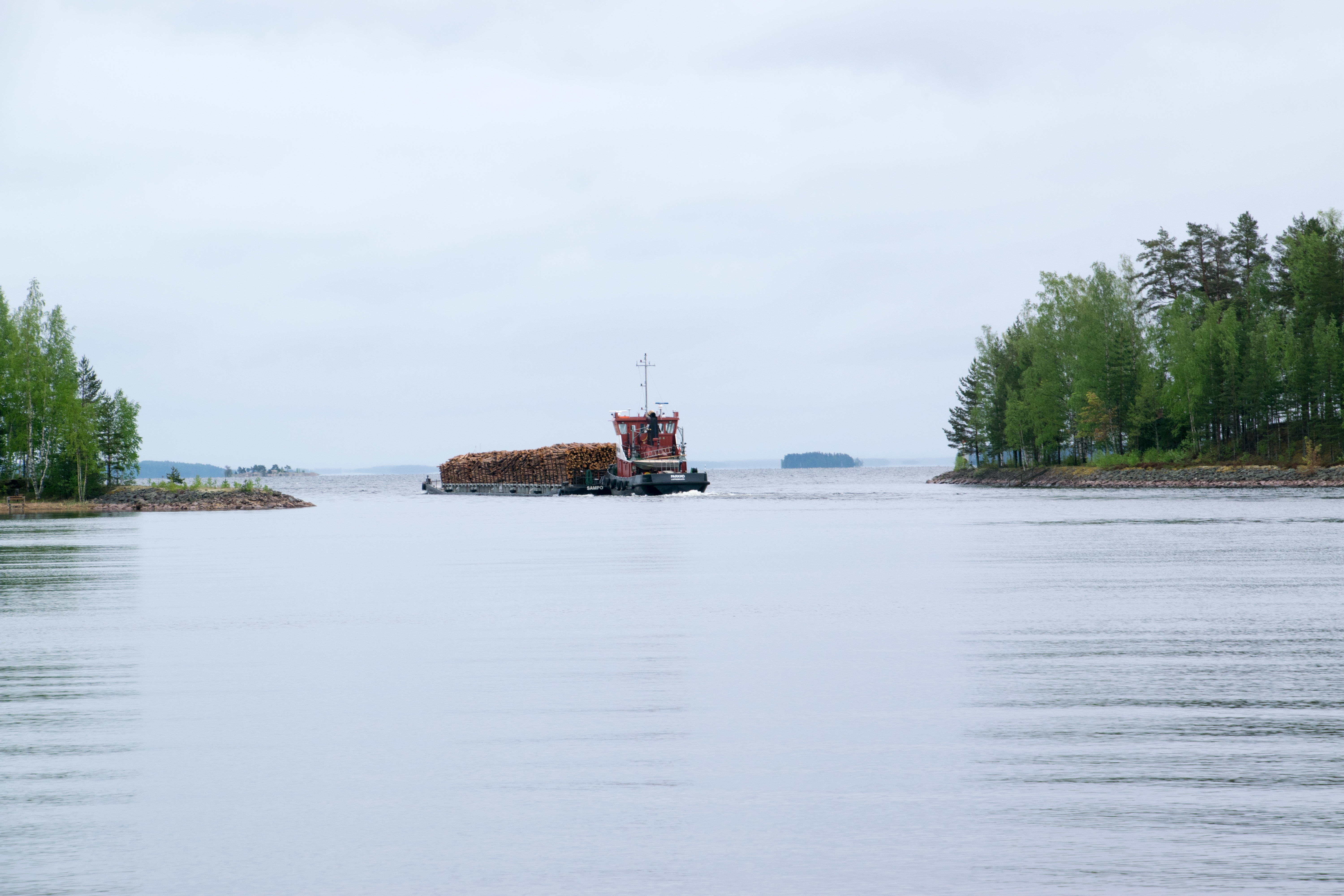 Tugboat Parkko and barge Sampo in Kutvele Canal, Finland.